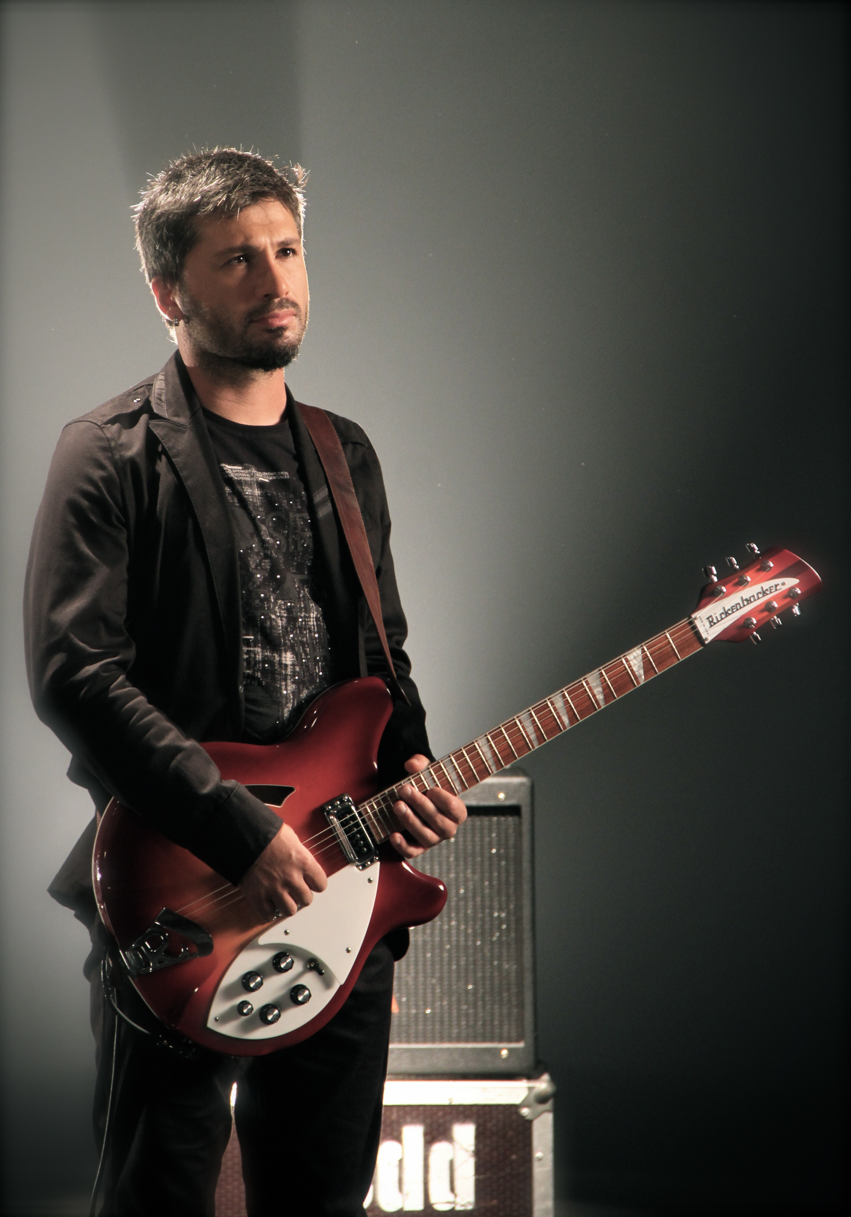 Güneş Duru, guitarist of the Turkish rock band Redd, songwriter and archaeologist. From the filming of the video clip for Prensesin Uykusuyum.